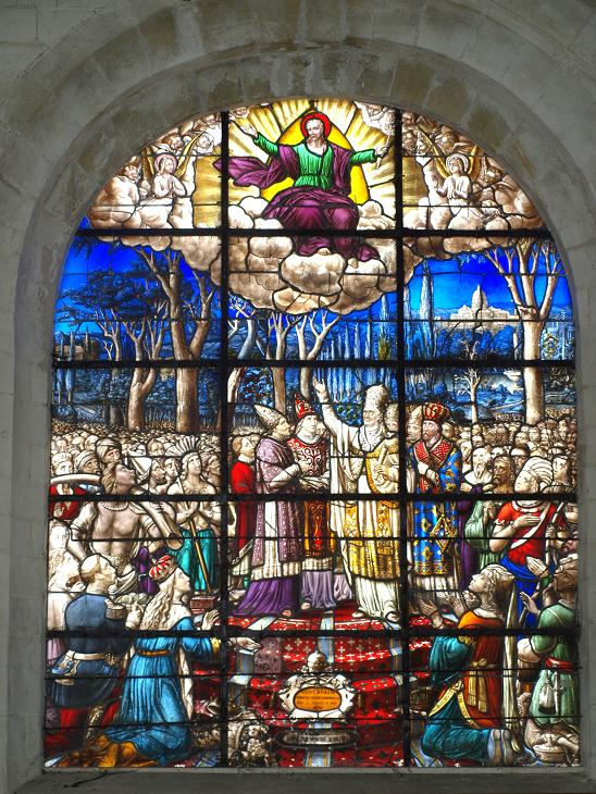 Pie IX.